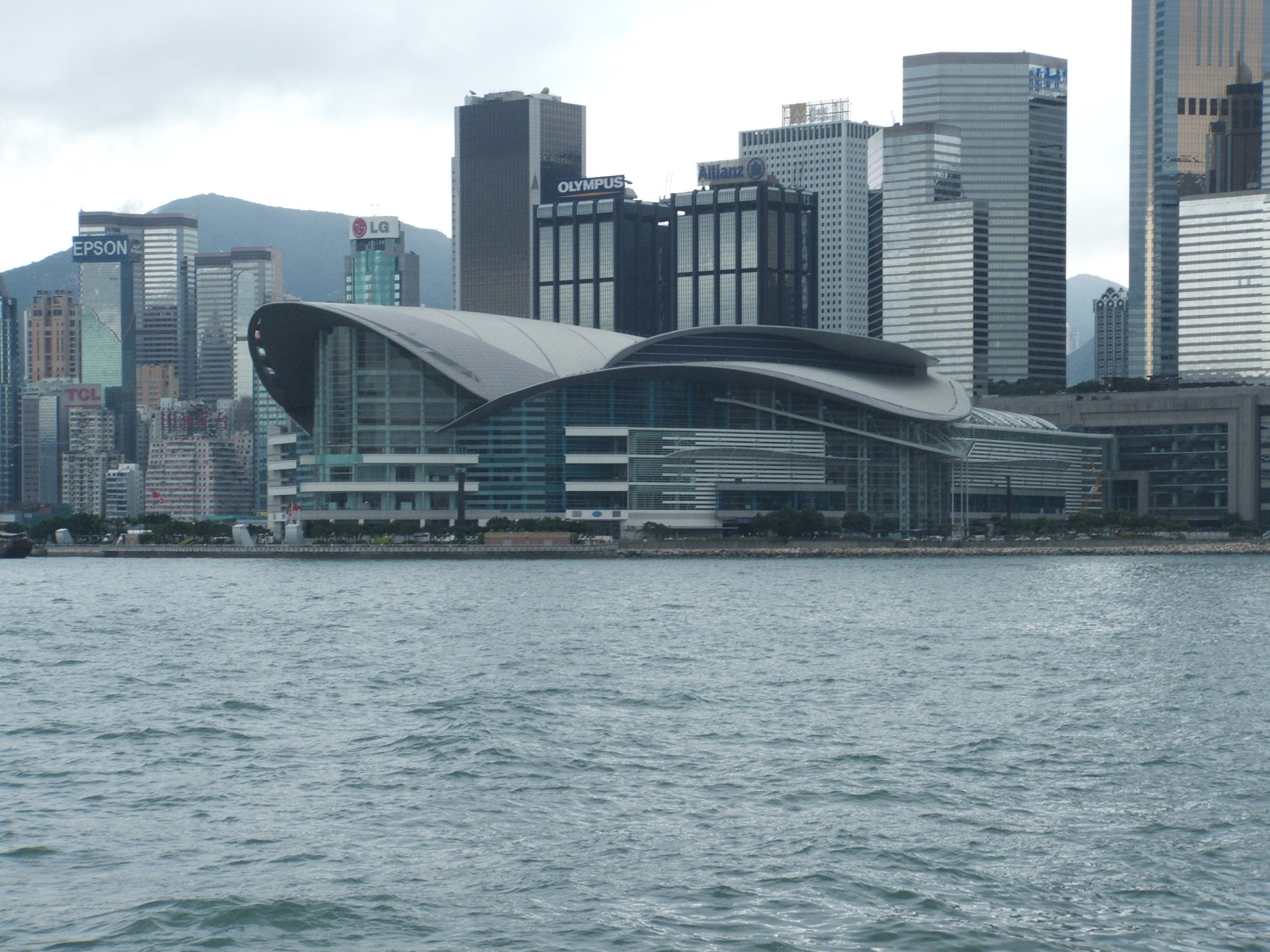 Hong Kong Convention Centre